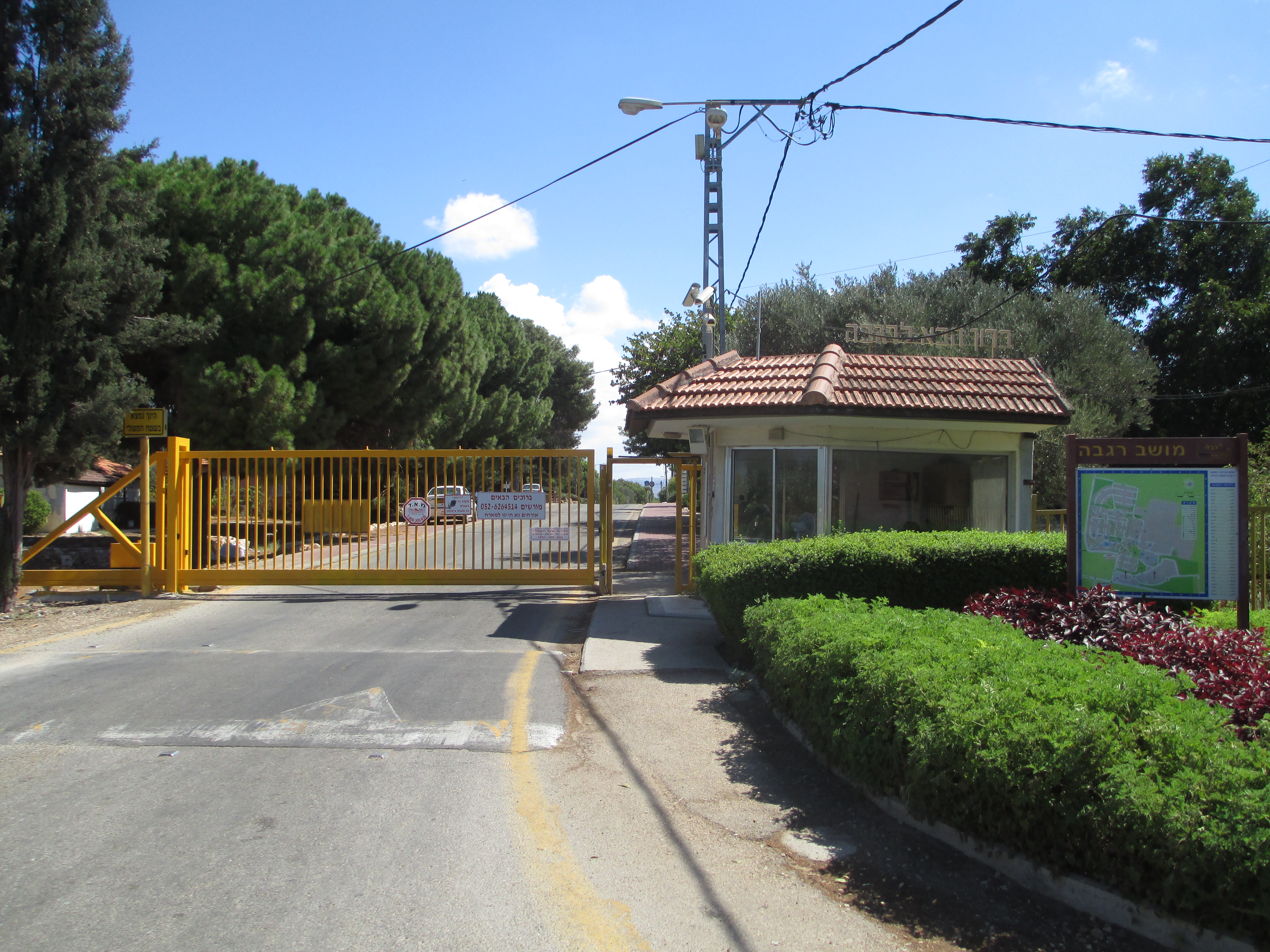 Entrance to Regba in Western Galilee